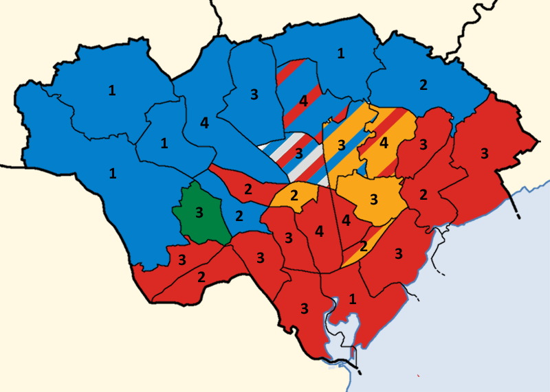 Results of the City of Cardiff Council election, May 2017, indicating numbers of councillors and their party affiliations Colours: Conservative Plaid Cymru Labour Liberal Democrat Independent Striped wards have mixed representation.